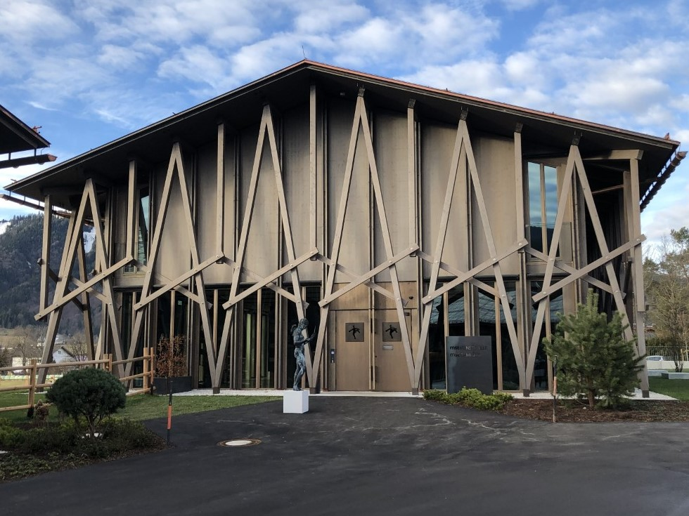 The mSE Kunsthalle in Unterammergau is a museum for contemporary art that opened in fall 2019. The building was designed by German architect Thomas Wild.